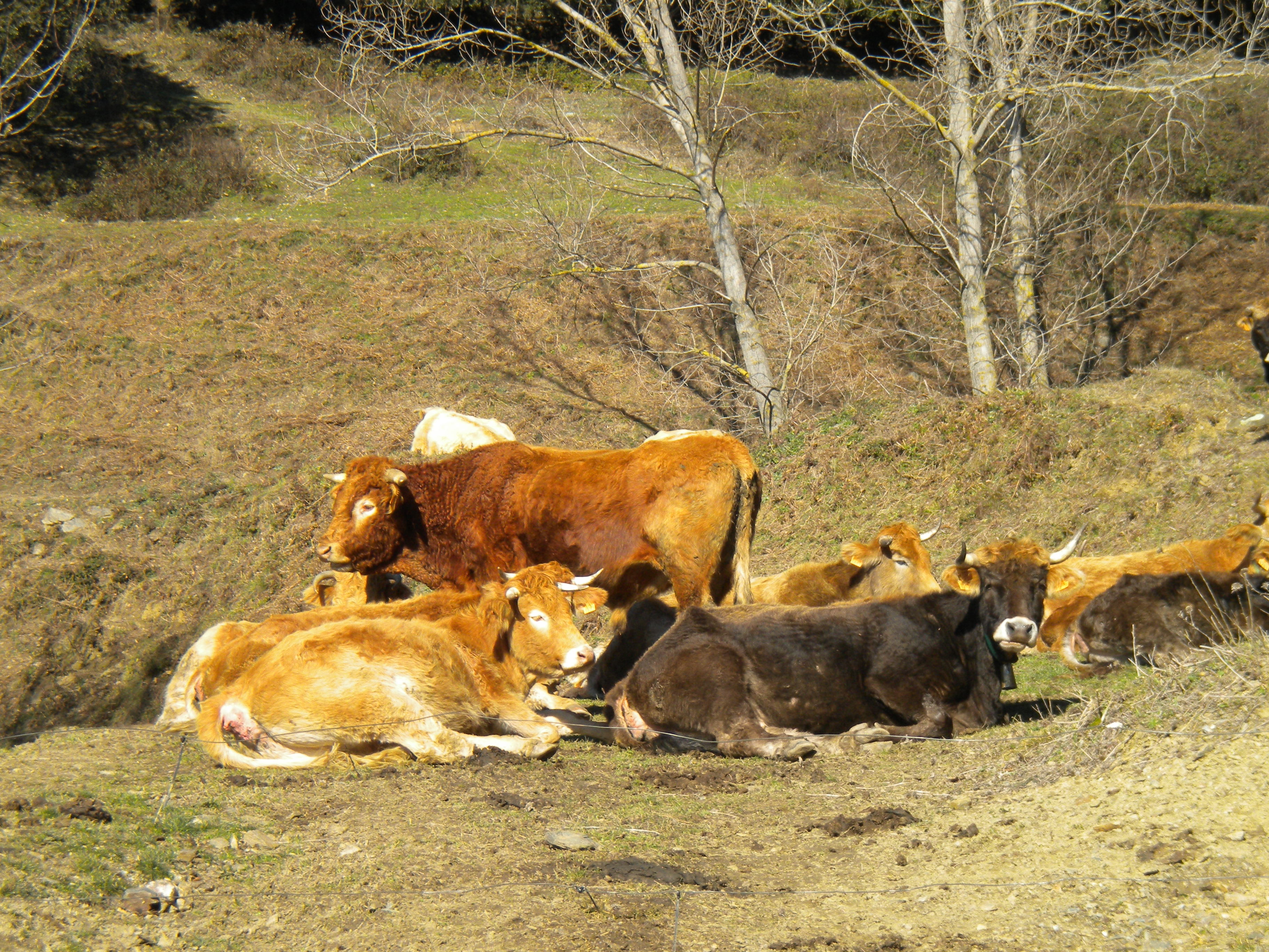 Cows in Montseny mountains.